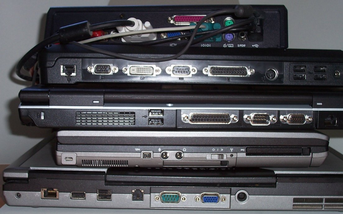 Example of computer connector sockets on laptops. Dell M65, Dell M4300, Fujitsu-Siemens Celsius H250, F-S docking station, Dell docking station.